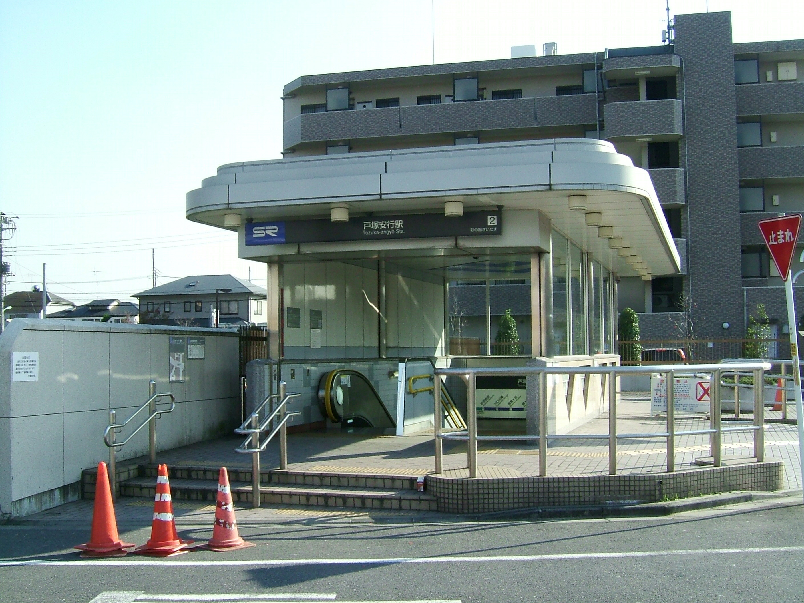 No. 2 entrance to Tozuka-angyo Station on the Saitama Rapid Railway Line